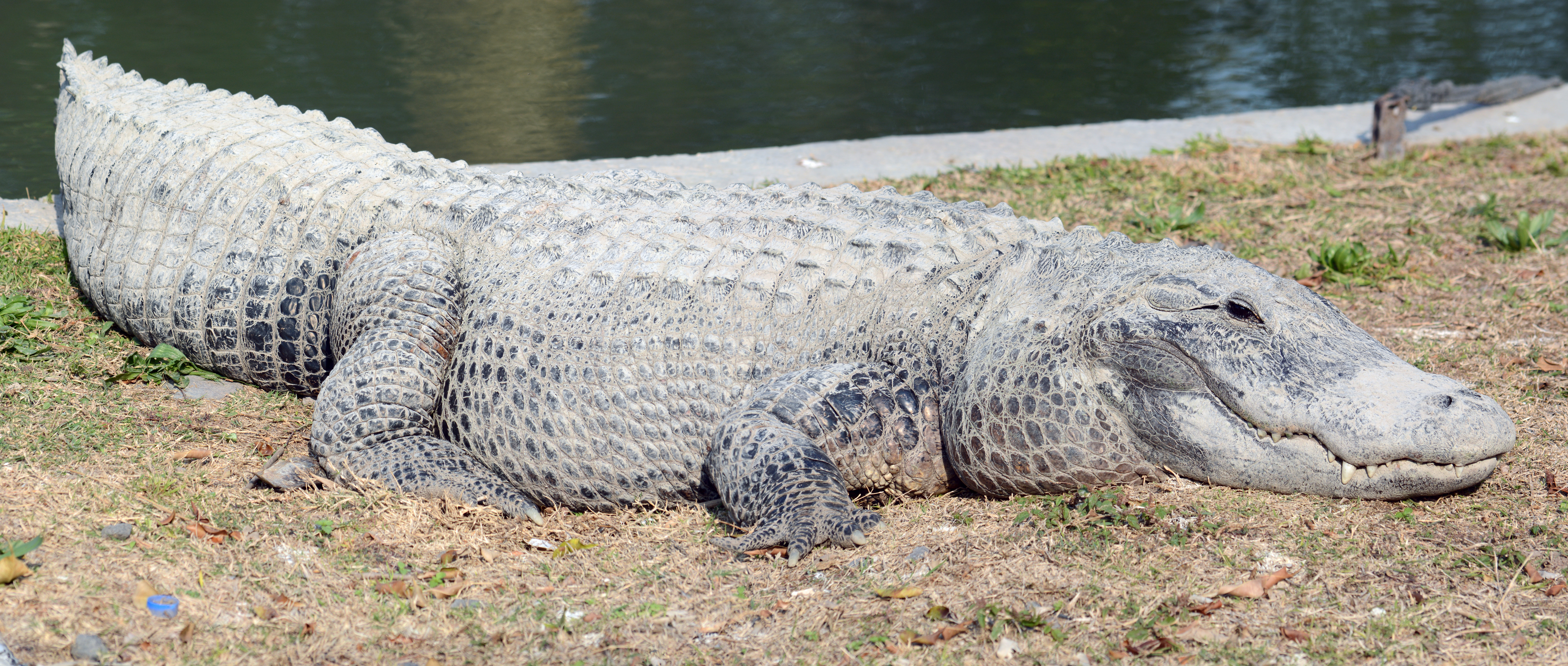 Alligator mississippiensis. Crocodiles in Hamat Gader, Israel